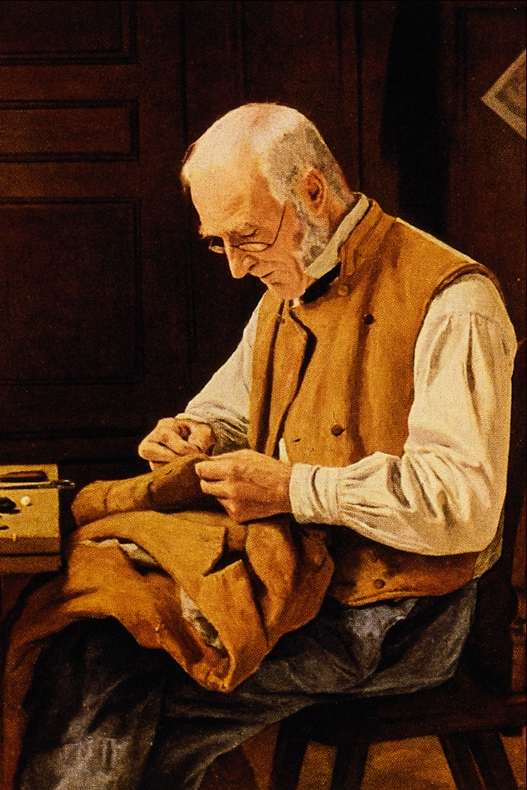 The Village Tailor